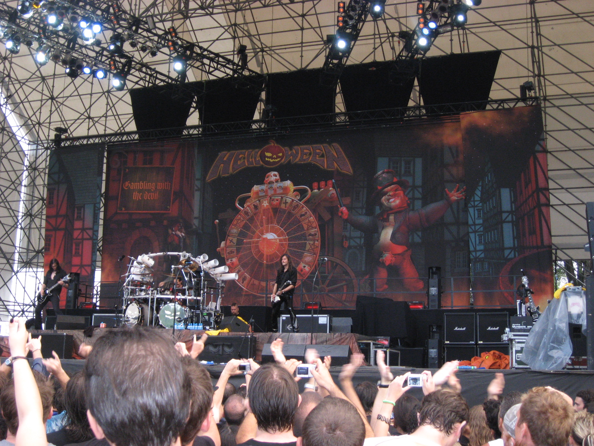 Helloween at Rockin' field festival at Milan (26 July 2008)